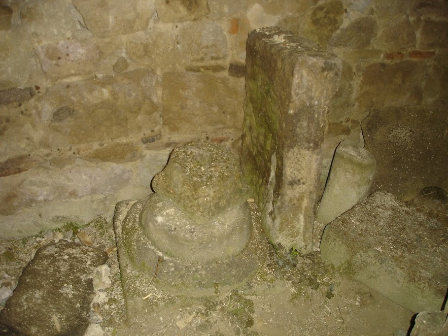 Interior of the Medieval church of St. George on the archeological site supposedly of the ancient city Tranupara, near Konjuh, Macedonia